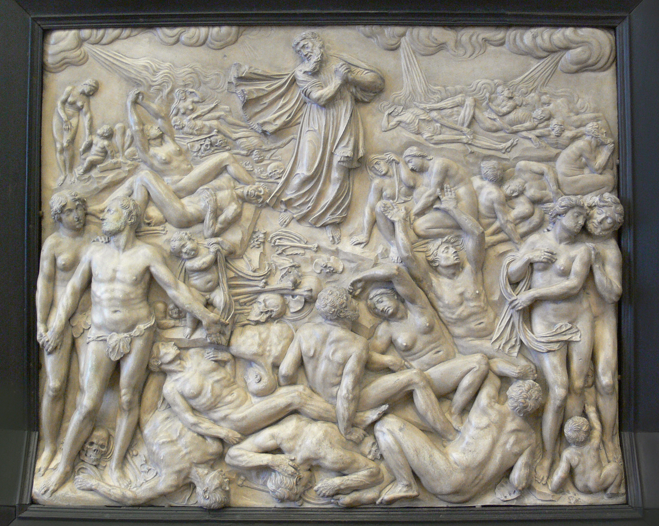 Leonhard Kern: Vision of Ezekiel, Schwäbisch Hall c. 1640–1650, alabaster, probably from an epitaph. Skulpturensammlung (Inv. no. 8482; from the Royal „Kunstkammer“ collection), Bode-Museum Berlin.